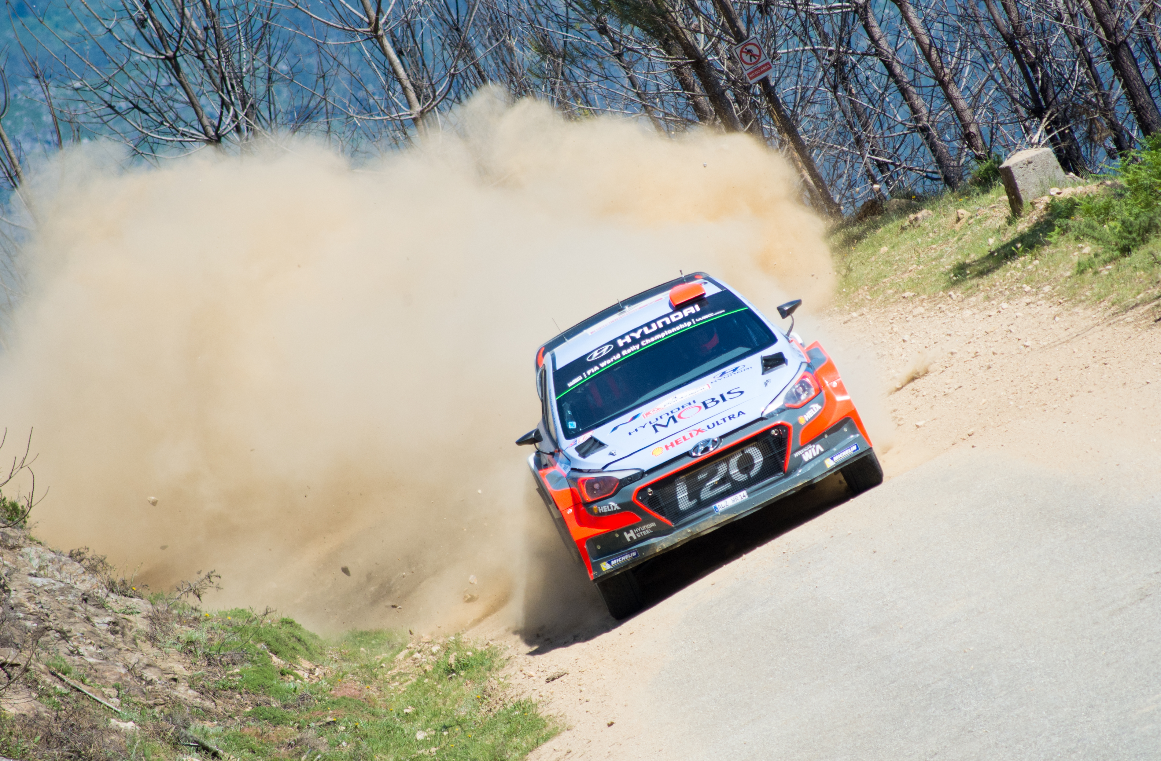 Rally of Portugal 2016. Section of "Ponte de Lima", on the second pass.